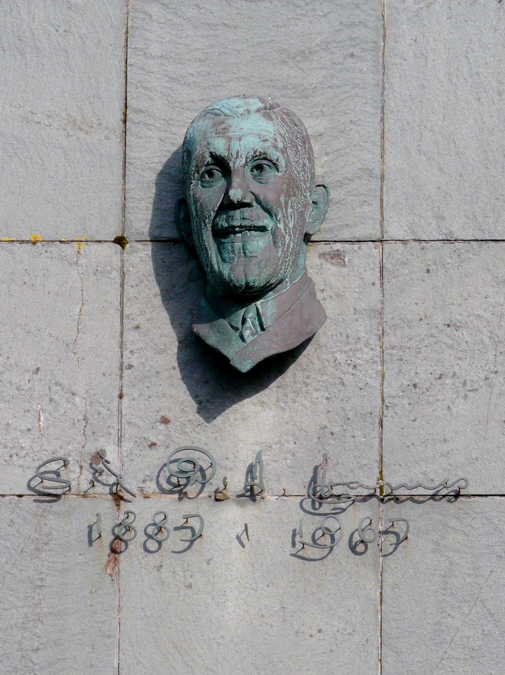 Sculpture of the philanthropist Sir David John James, Pantyfedwen (1887–1967), outside the James Pantyfedwen Foundation, Aberystwyth